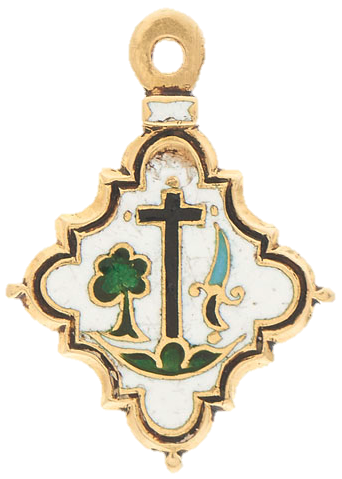 Medal of Familiar of the Holy Office (Portuguese Inquisition).